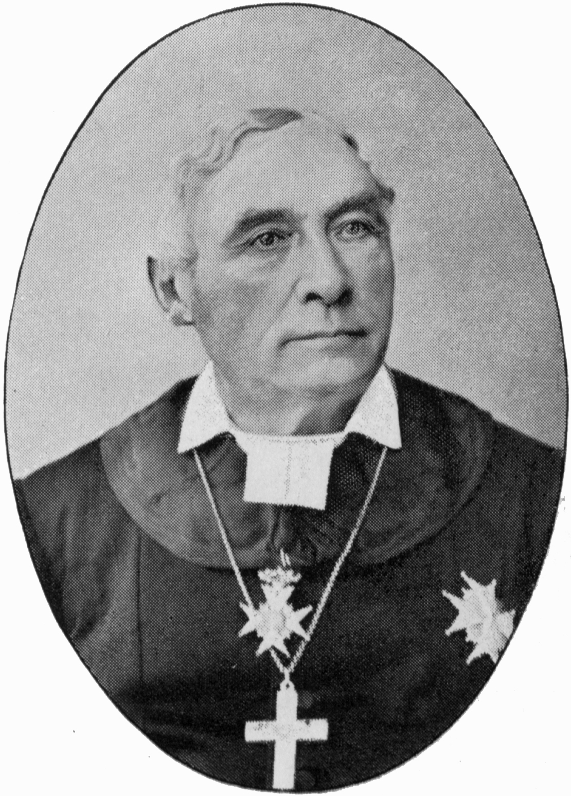 Wilhelm Flensburg (1819-1897), Swedish clergyman, professor of theology at Lund university and bishop of Lund 1865-1897.